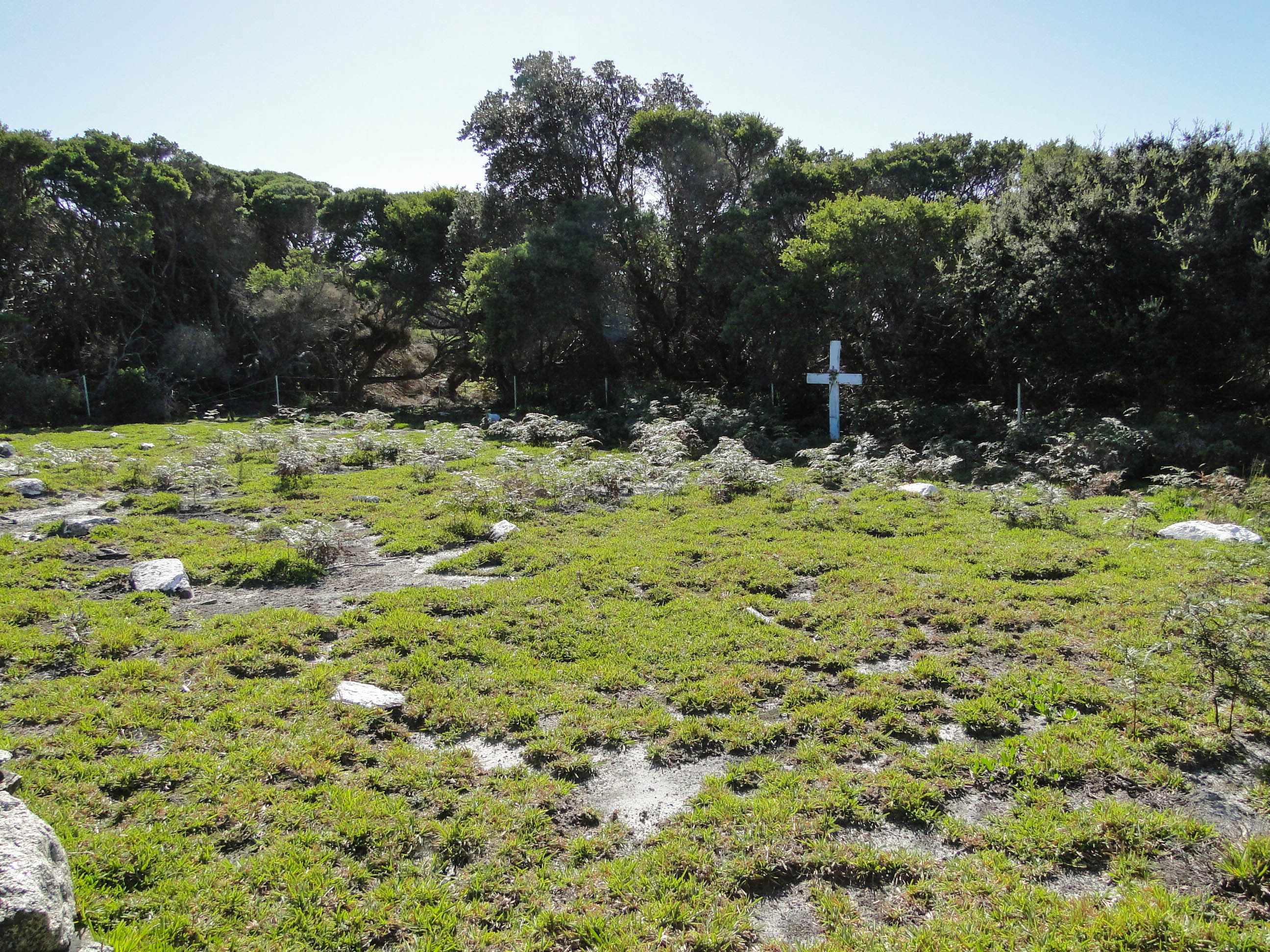 A small cemetery with the graves of people drowned when the S.S. Ly-ee-Moon was wrecked off Green Cape, New South Wales.